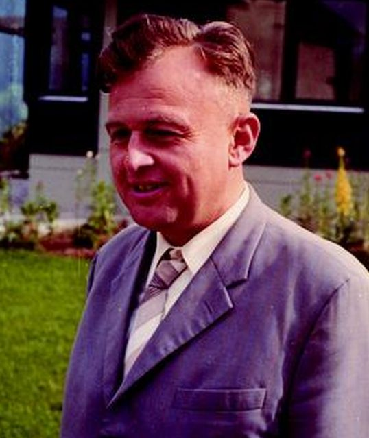 Hermann Witting, Mathematician